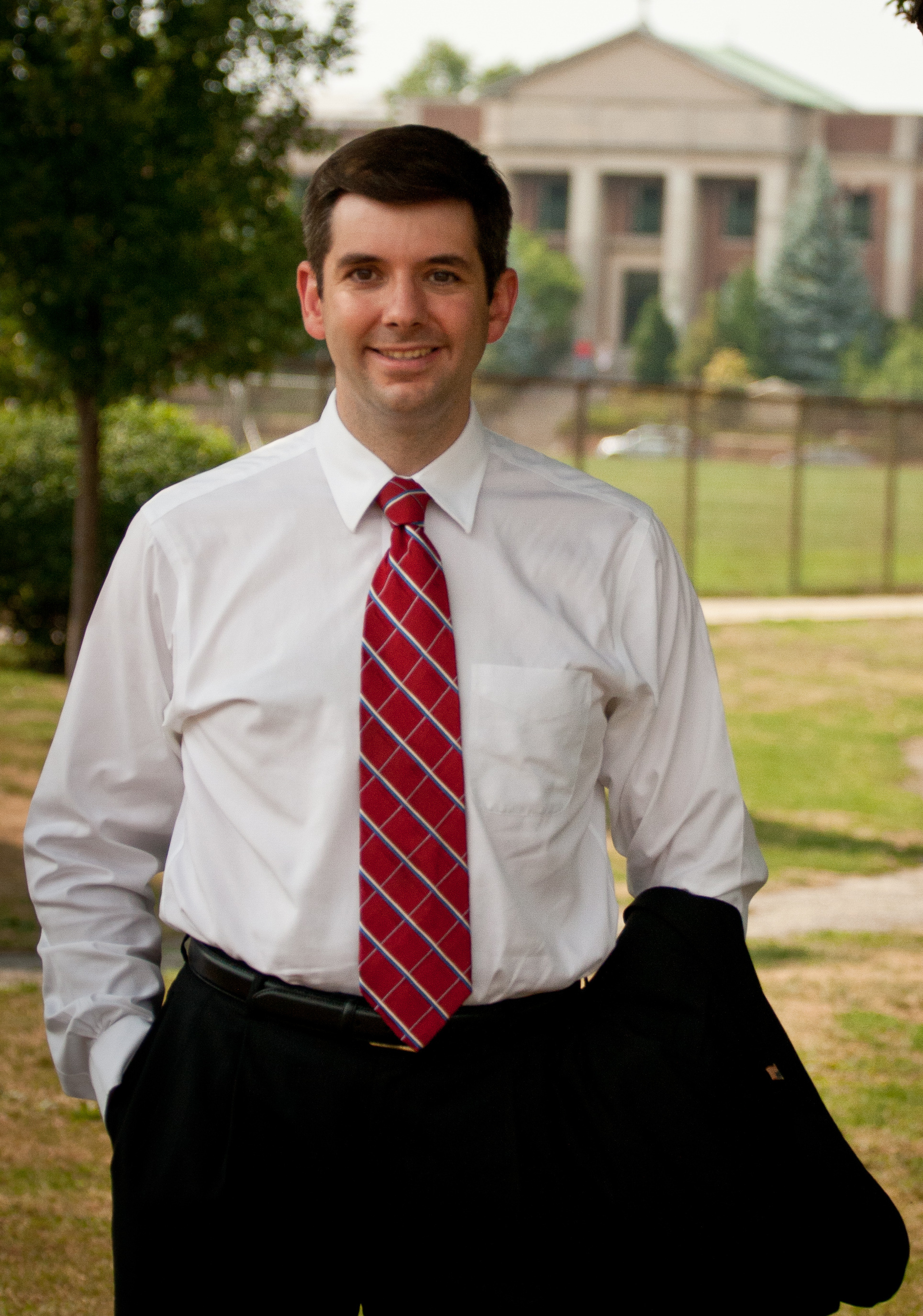 Outside Chaminade High School